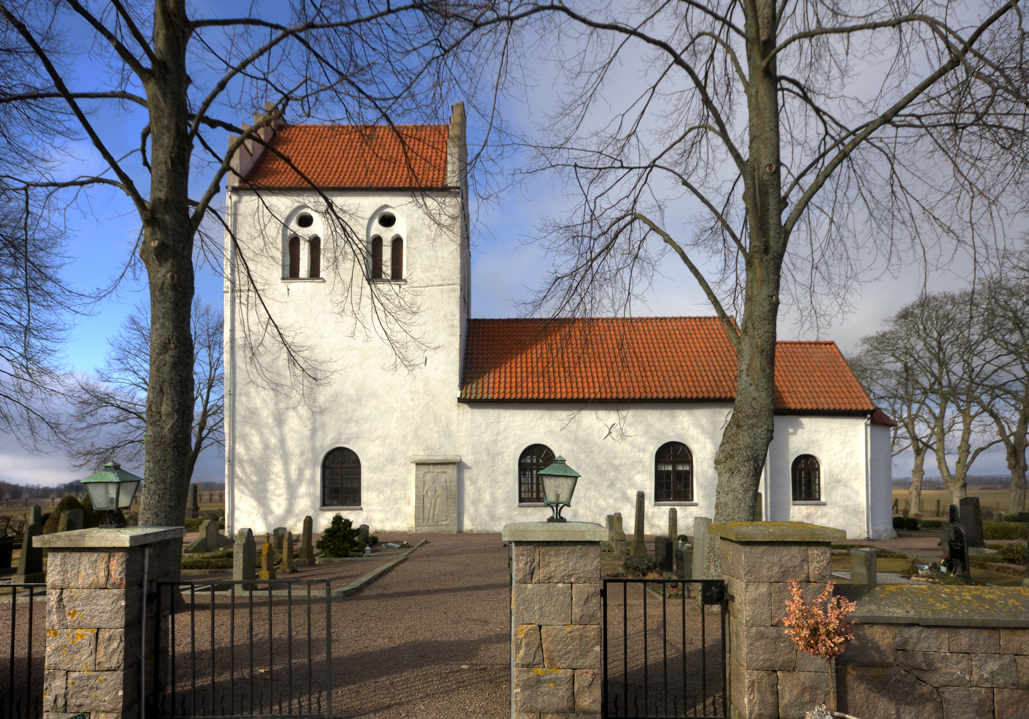 Risekatslösa kyrka, a church in Bjuv Parish and Risekatslösa hamlet in Scania, Sweden.